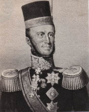 William II of the Netherlands